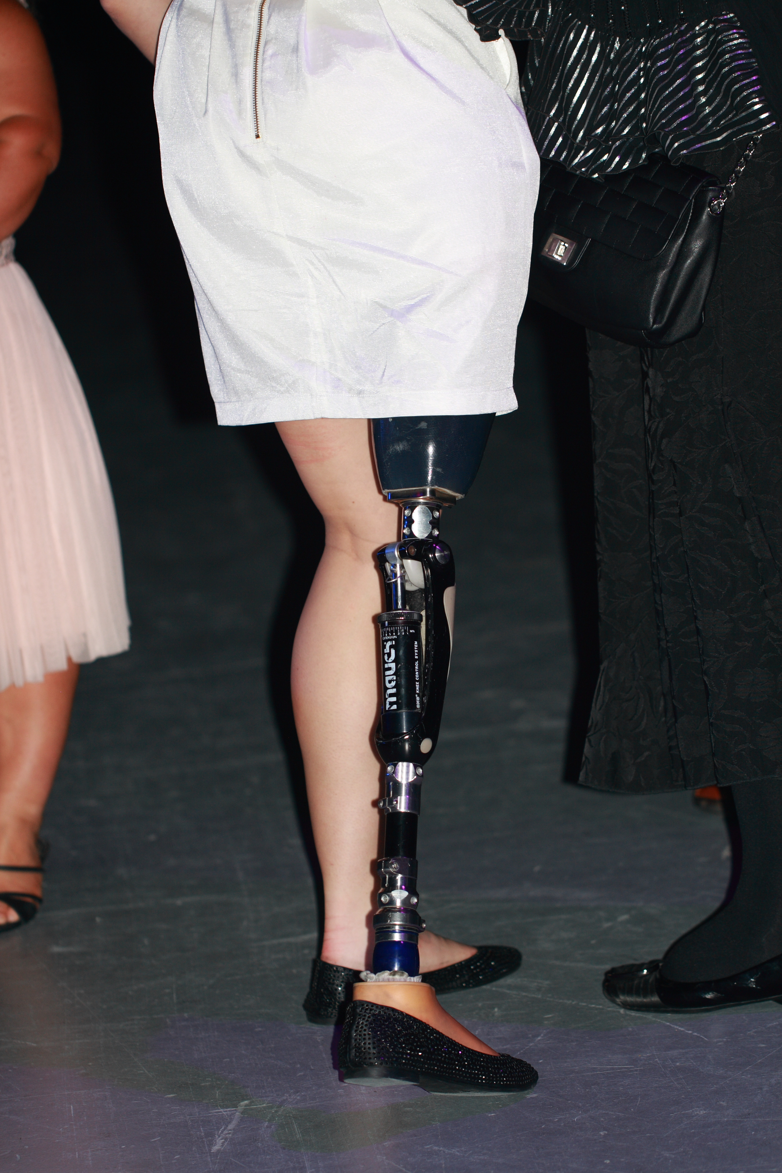 Australian Paralympian of the Year 2012 ceremony at the Hordern Pavilion, Sydney, Australia.